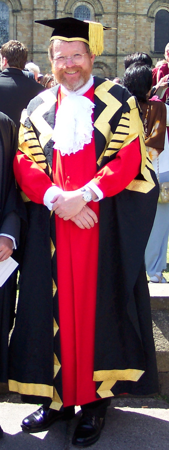 Bill Bryson in the robes of Chancellor of the University of Durham.